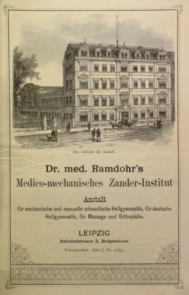 Ramdohrs Zander-Institut um 1880, brochure 1880